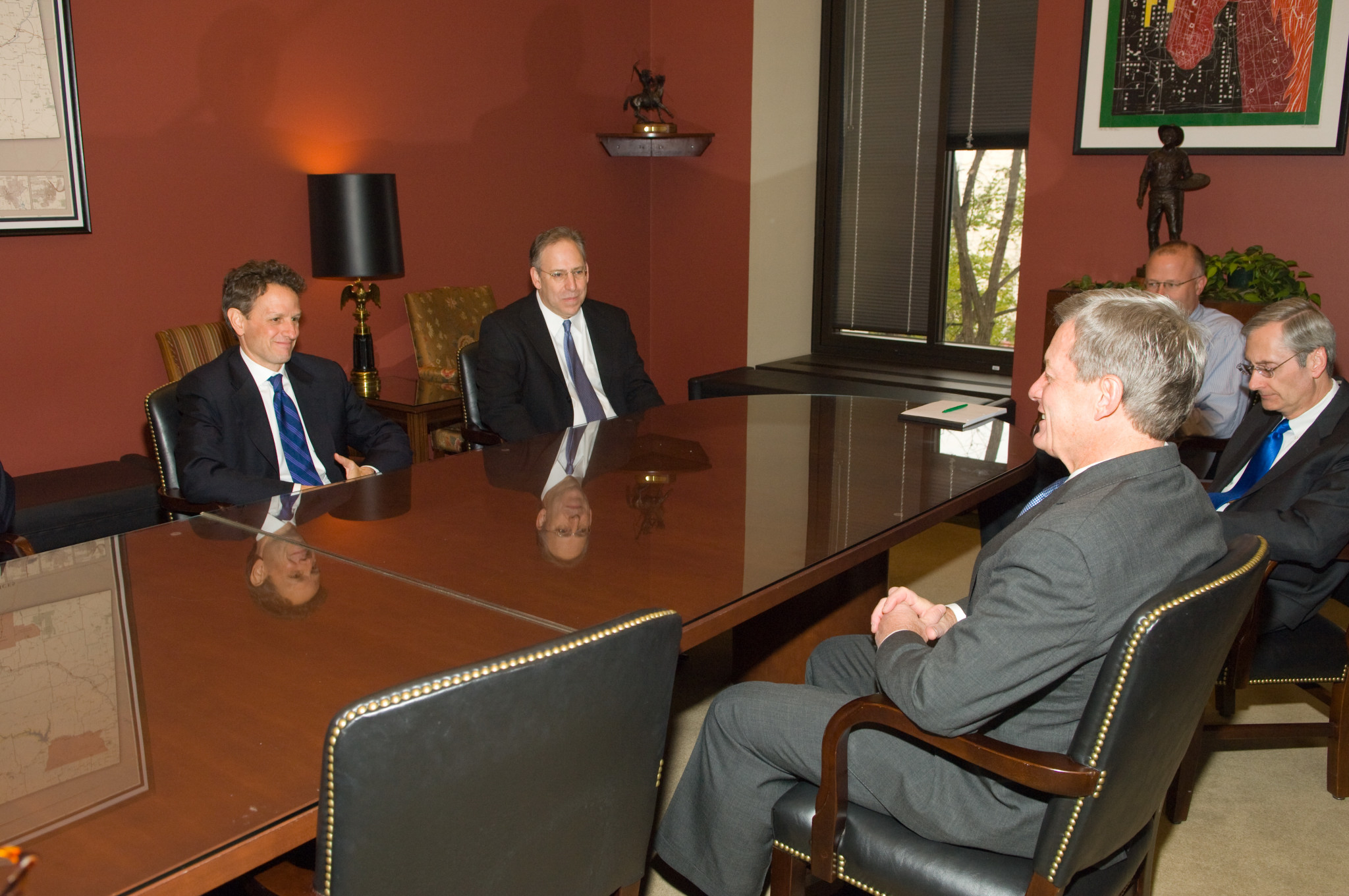 Treasury Secretary designee Tim Geithner meets Finance Committee Chairman Max Baucus; in photo, clockwise from the left are Secretary designee Timothy Geithner, transition staffer Jim Crounse, Finance Committee staff director Russ Sullivan, Finance Committee deputy staff director Bill Dauster, and Finance Committee Chairman Max Baucus